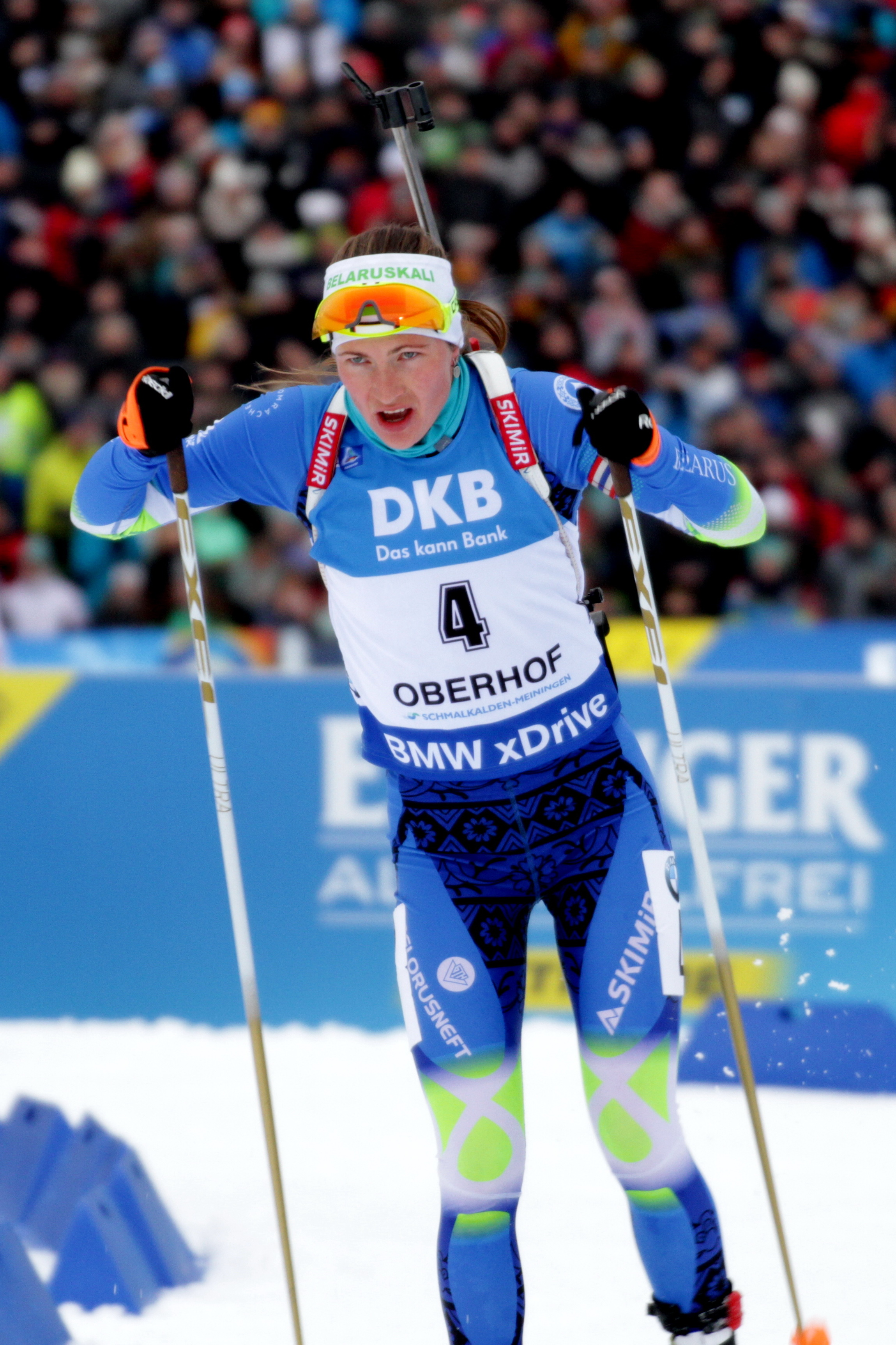 2018 Oberhof Biathlon World Cup - Sprint Women